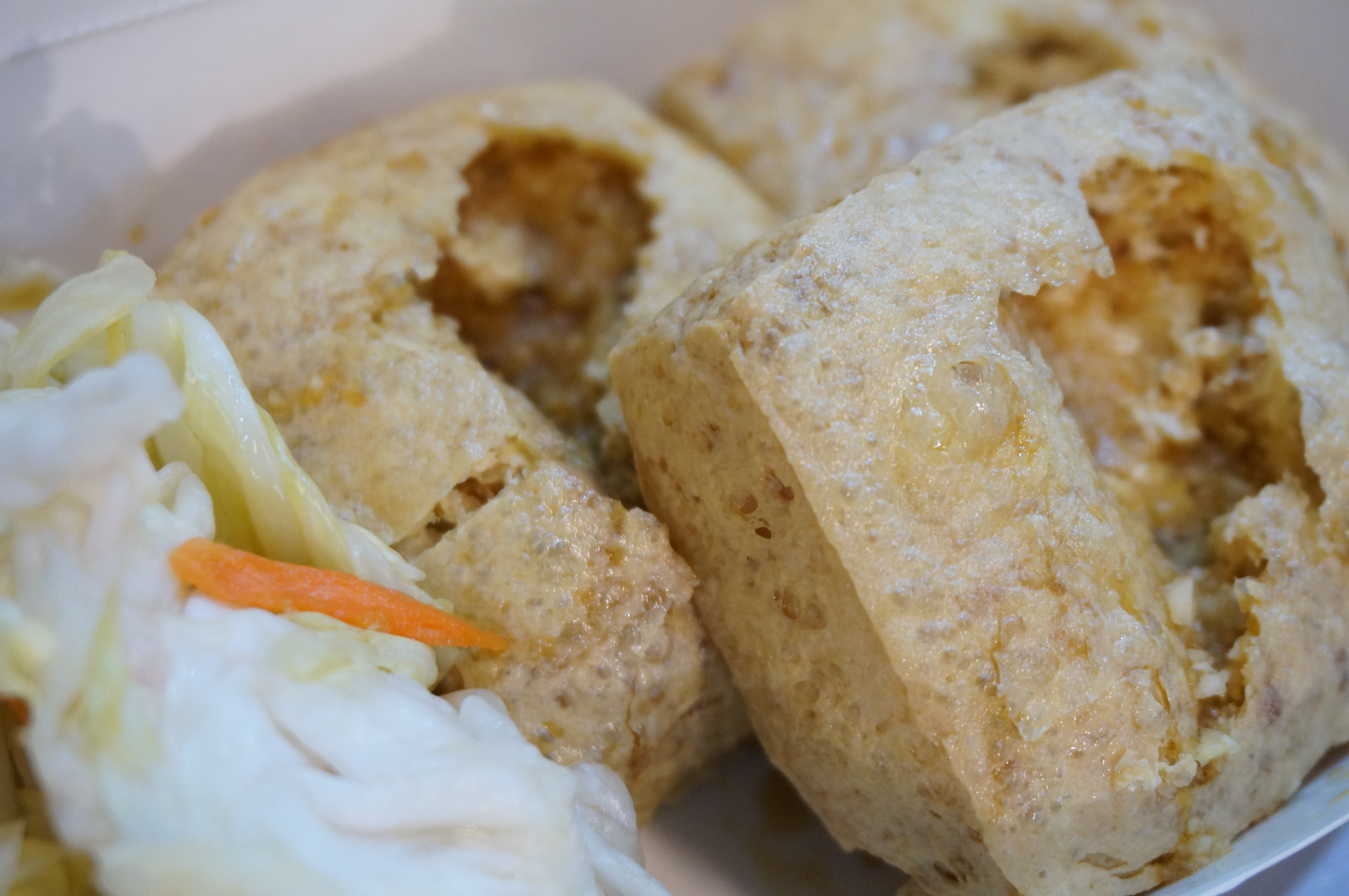 Fried Stinky To-fu, Taiwan style.